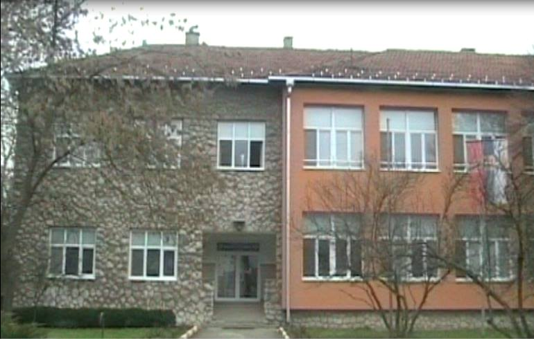 dggddgdgd